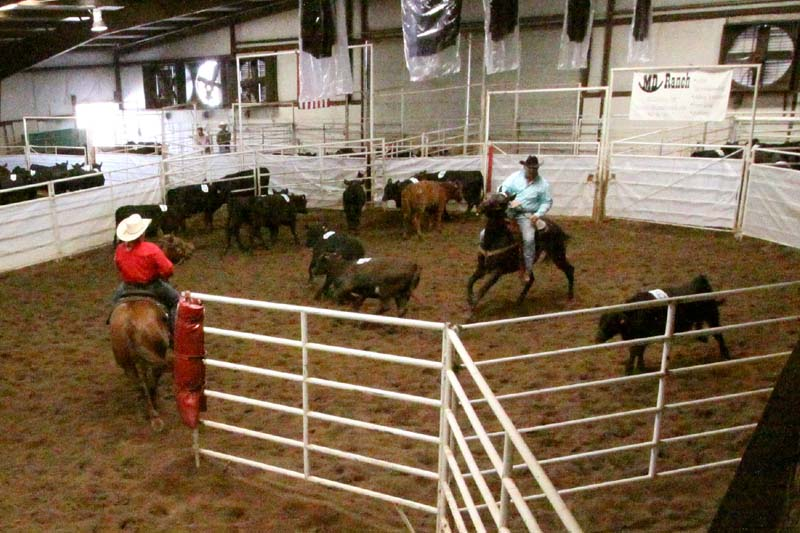 Two horsemen practice the western equestrian sport of Ranch Sorting at the Play Pen Arena in Ponca City, Oklahoma on October 11, 2008. Use of this photo must include an attribution to Hugh Pickens and a link to Hugh Pickens.